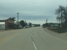 Downtown Woodson has seen many changes over the years - and it's still growing and evolving!